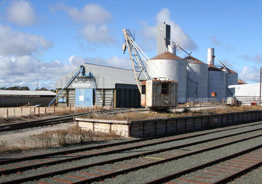 Kerang station. Victoria, Australia